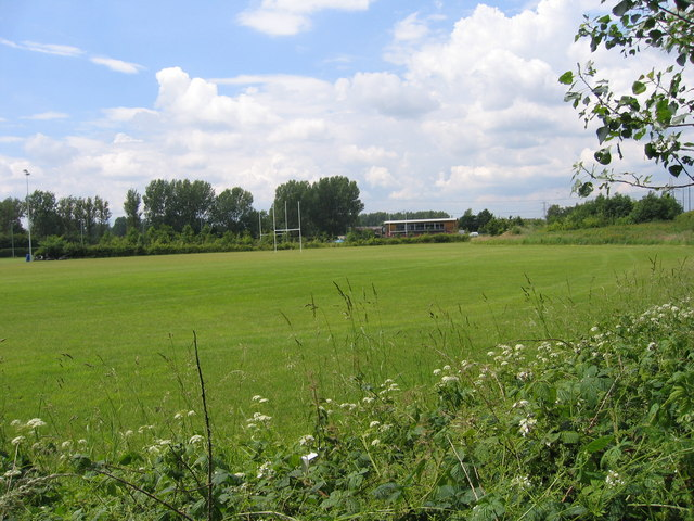 Training Ground Sale Sharks R.U.F.C. Carrington Training Ground.